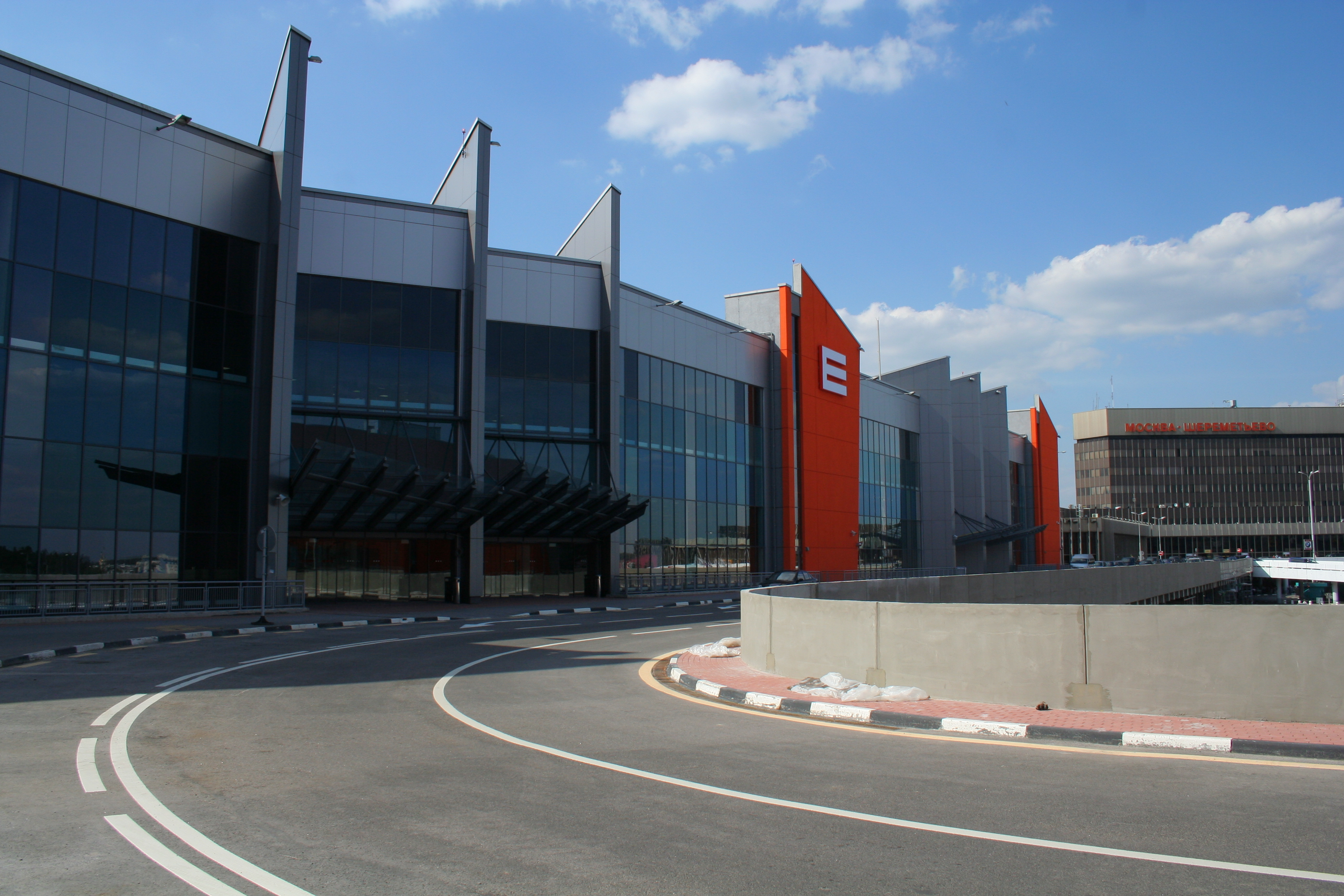 Sheremetyevo Airport of Moscow. Terminal E. View outside.